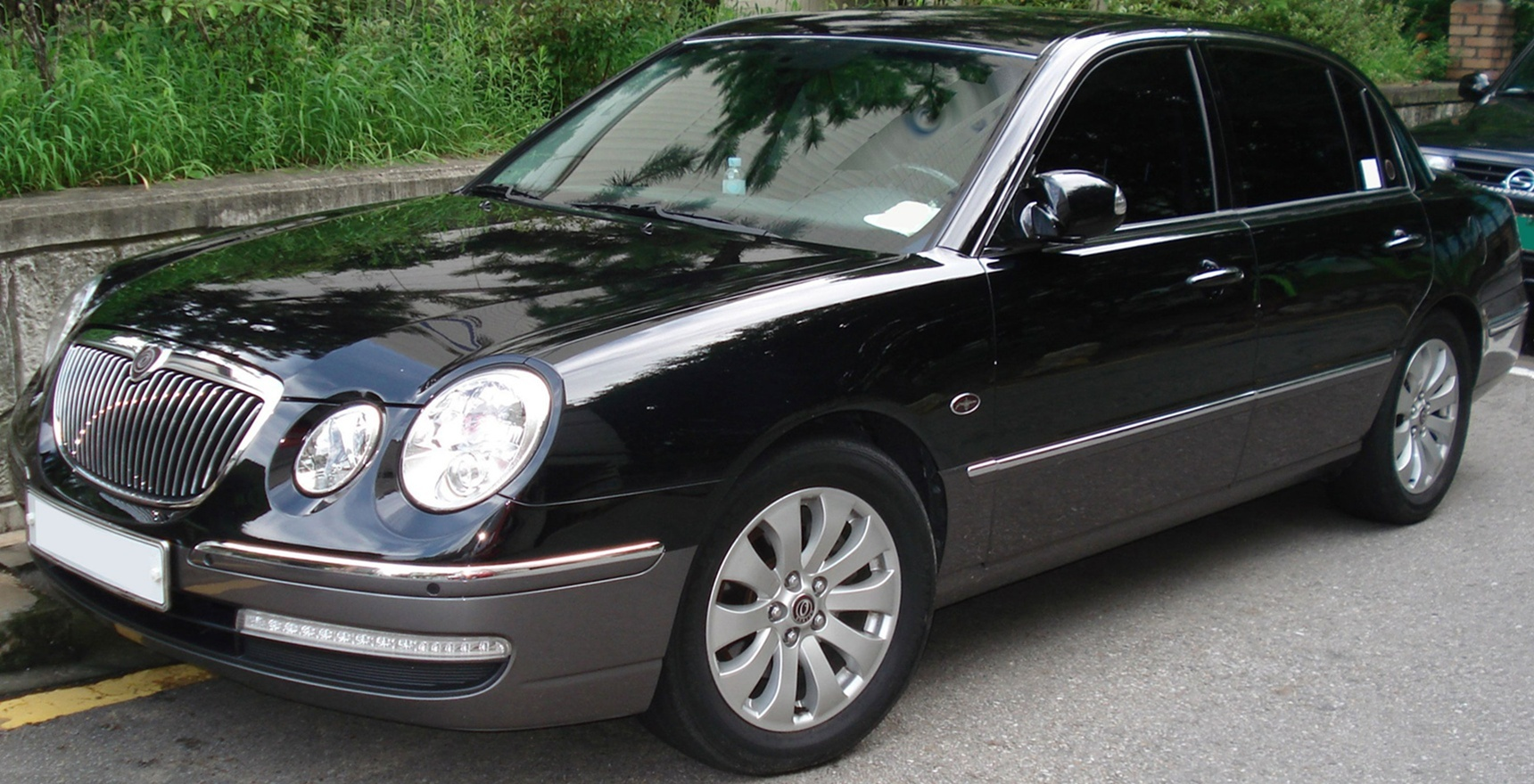 Kia The N.E.X.T Opirus